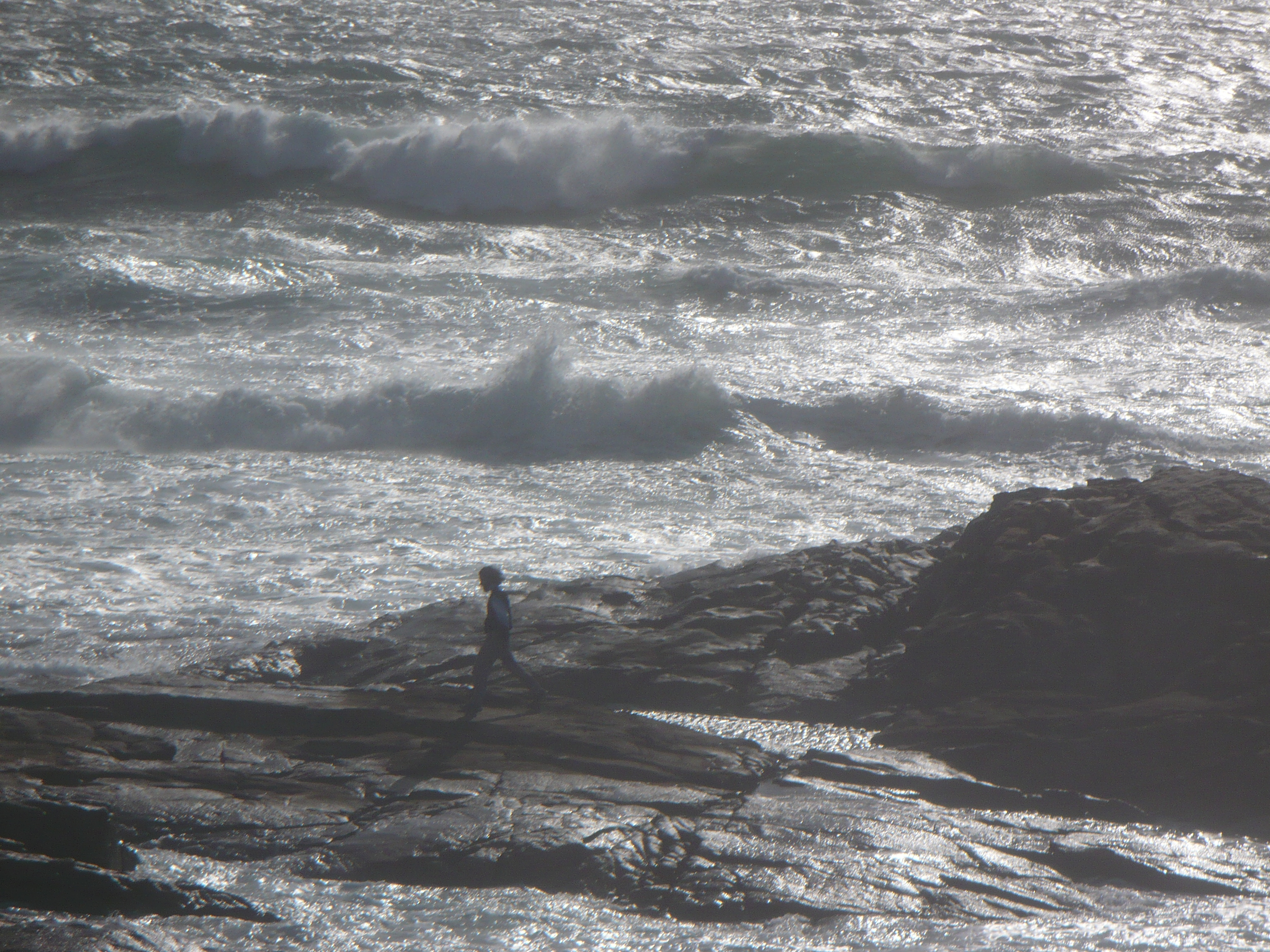 Waves of the sea. Image taken from Silleiro cape, in Baiona.